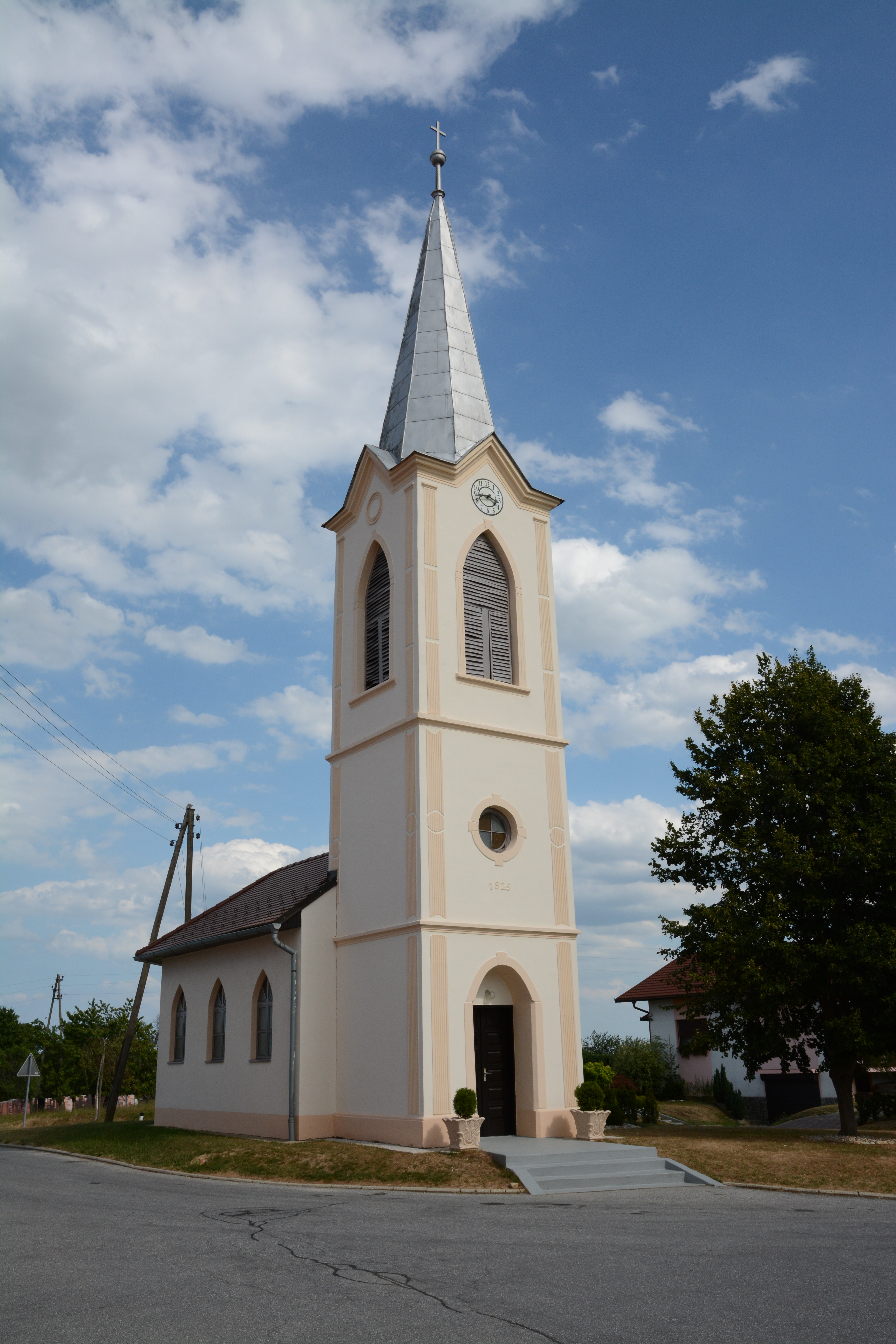 Chapel Andrejci